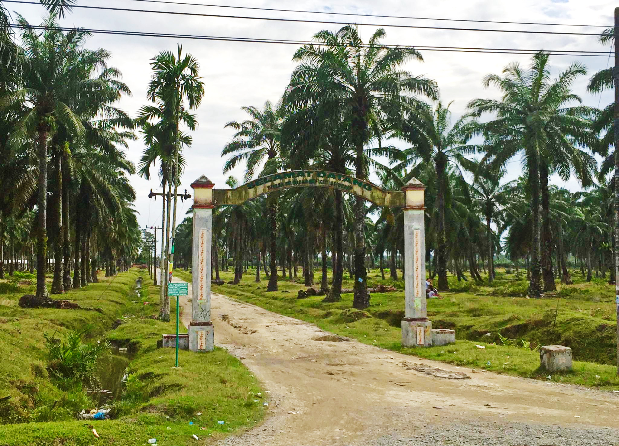 welcome gate to Perkebunan Sei Dadap III-IV, Sei Dadap, Asahan